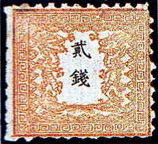 Ryumon stamp